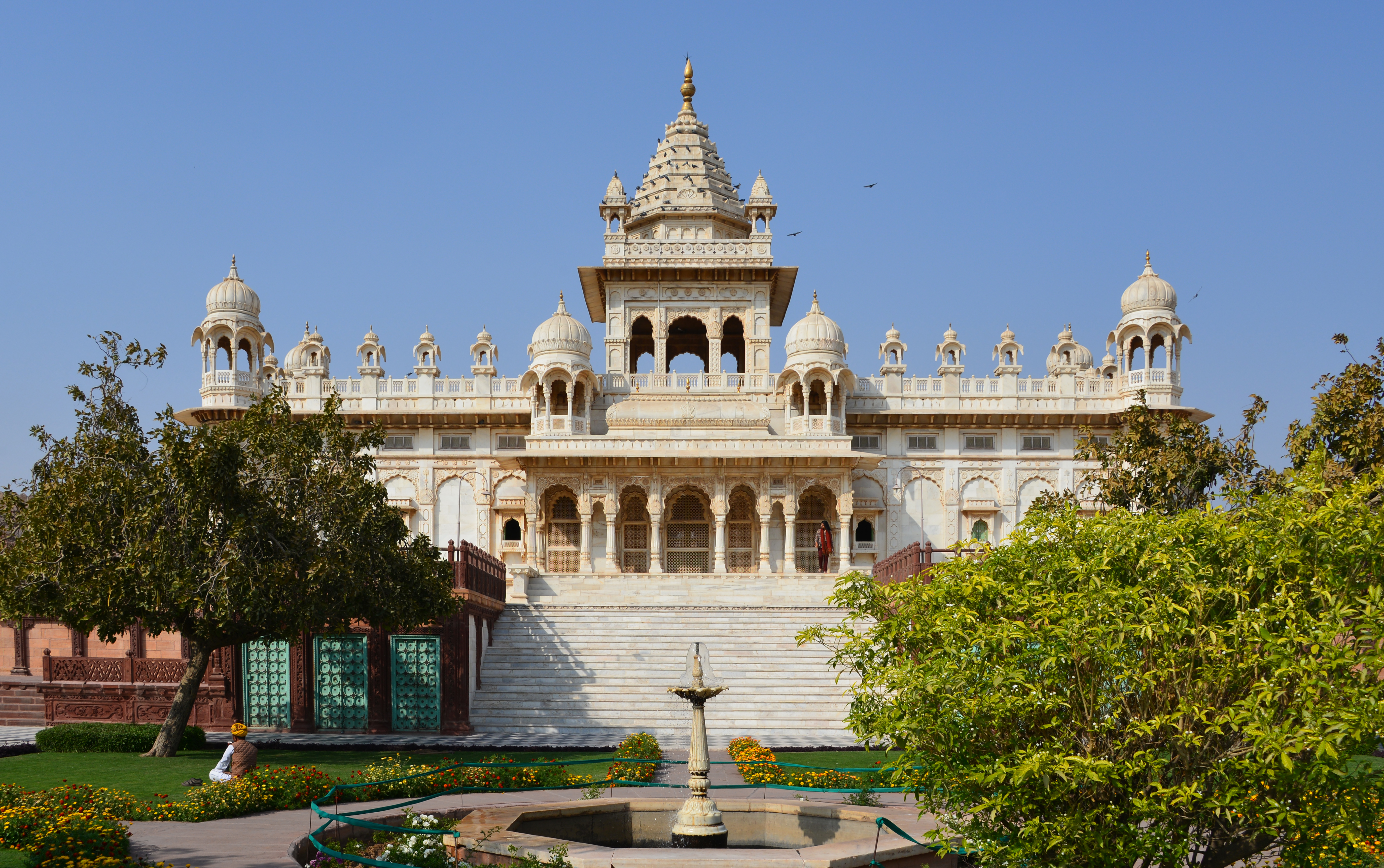 Jaswant Thada cenotaph in Jodhpur, Rajasthan, India.